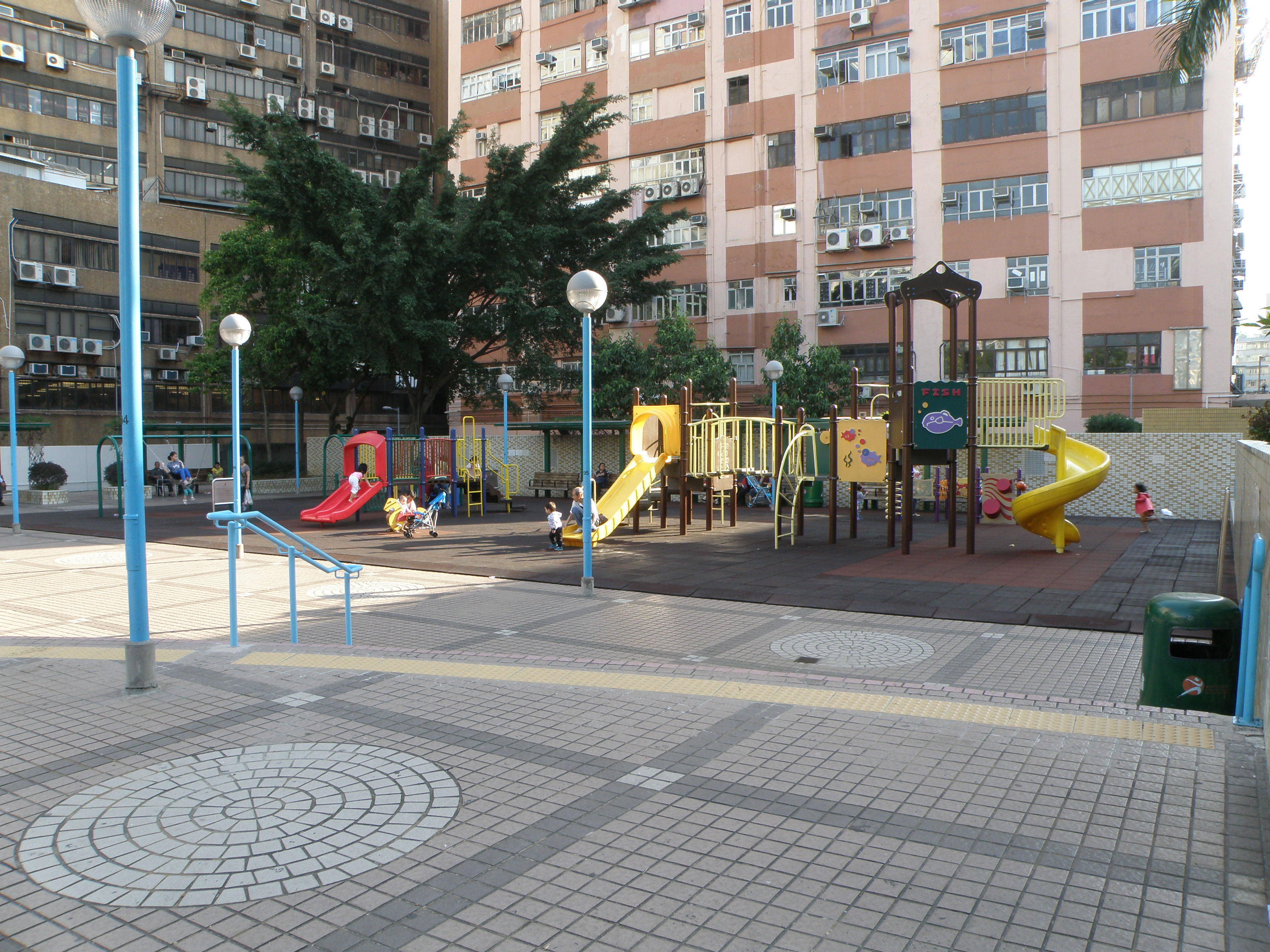 Tokwawan Recreation Ground in To Kwa Wan, Hong Kong.